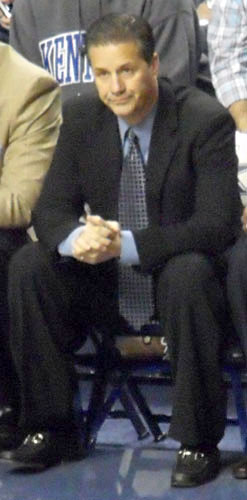 John Calipari coaches a basketball game for the Kentucky Wildcats